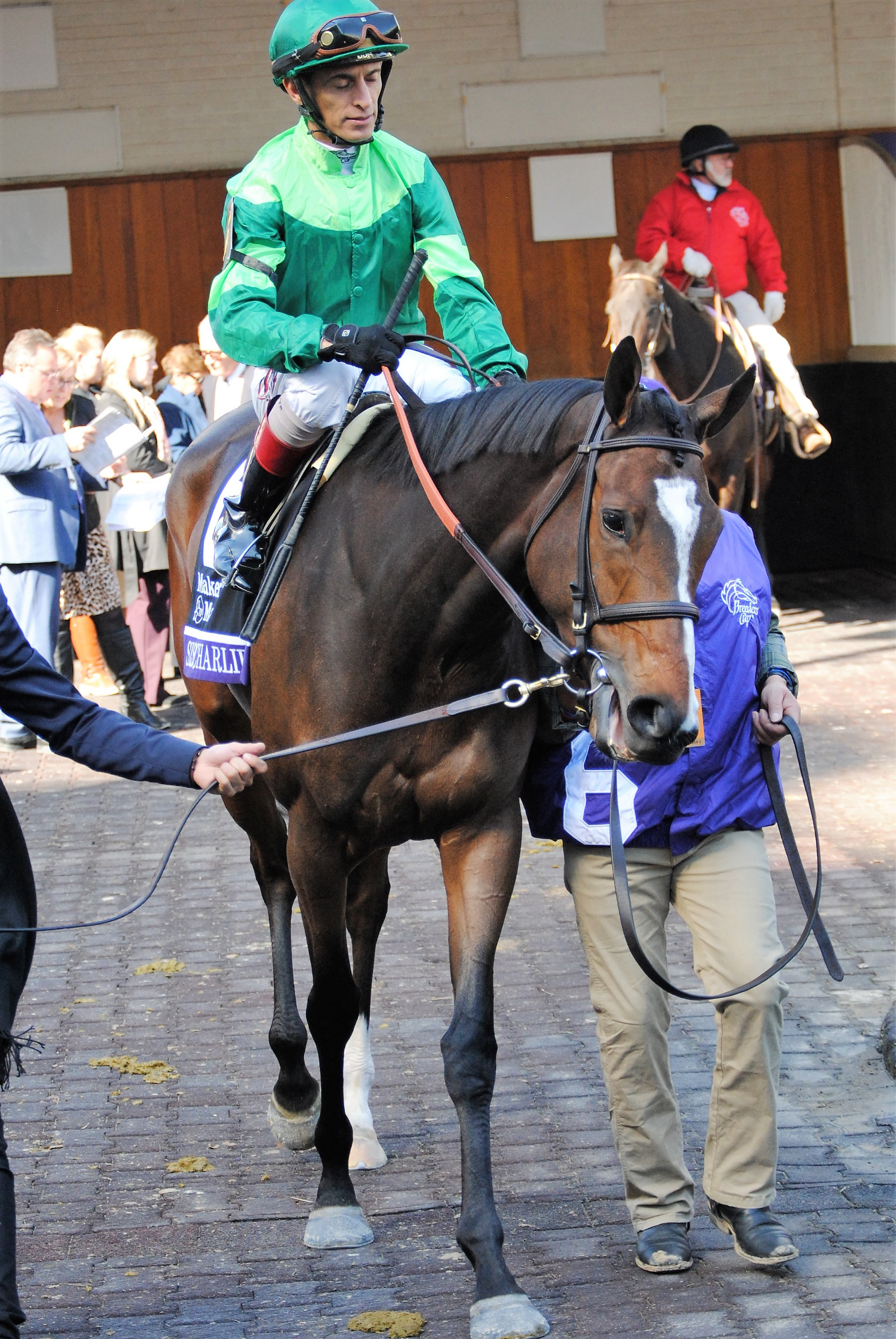 Sistercharlie and John Velazquez before winning the 2018 Breeders' Cup Filly & Mare Turf